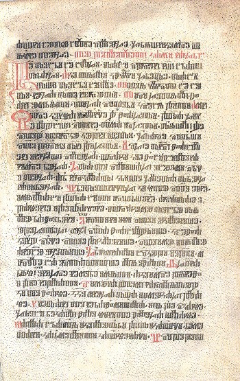 Page from a 1380 glagolithic miscellany, kept in Paris, France